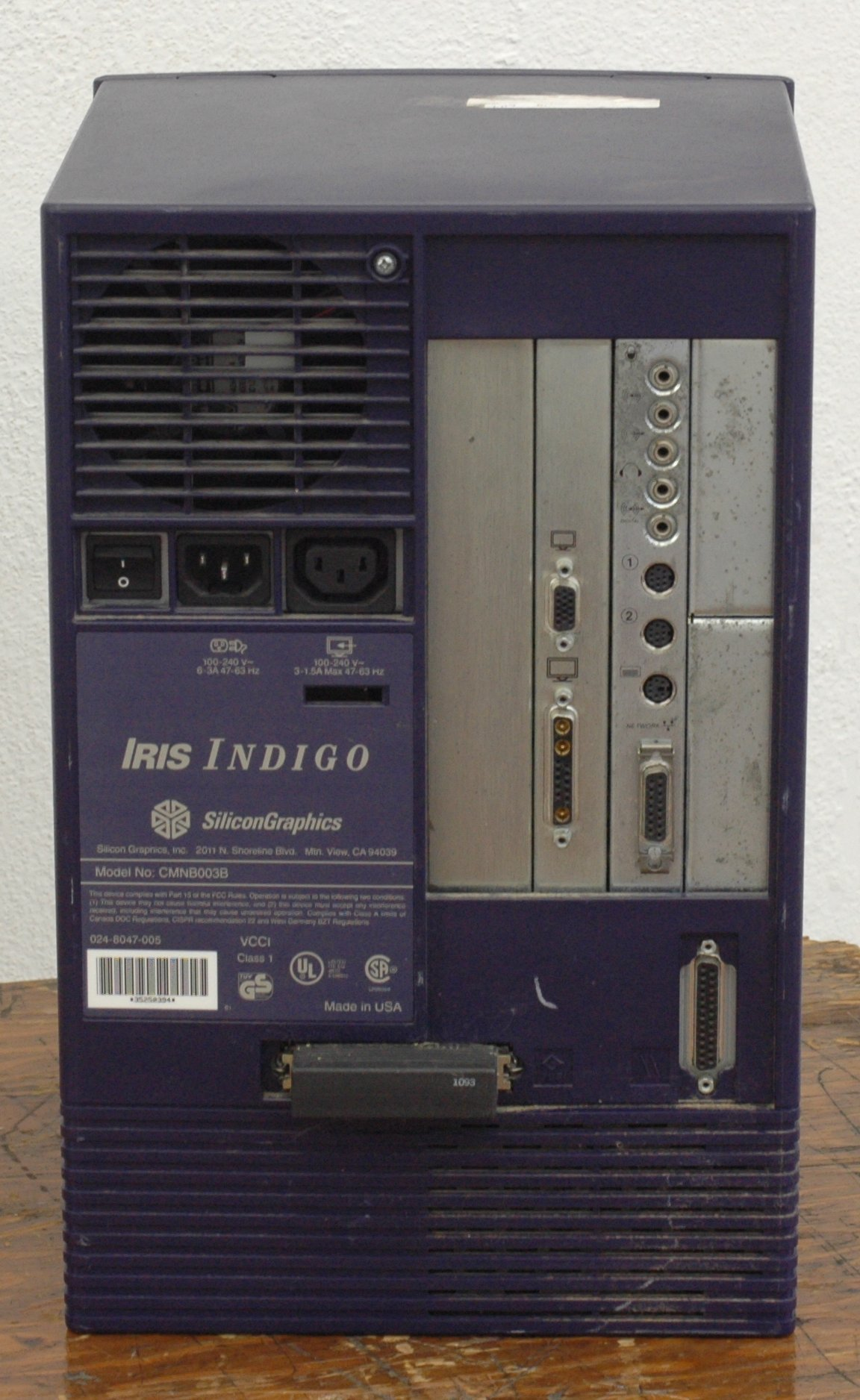 SGI Indigo workstation, back view. From the collection of the RCS/RI.